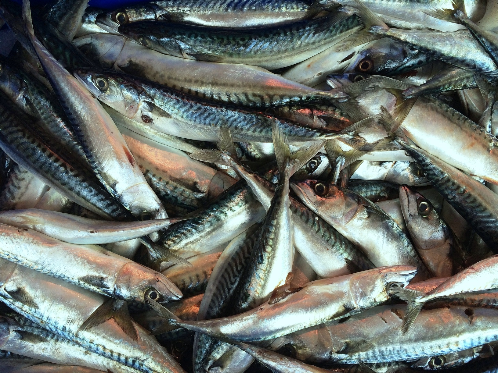 Mackerel at a market in The Hague, Netherlands.